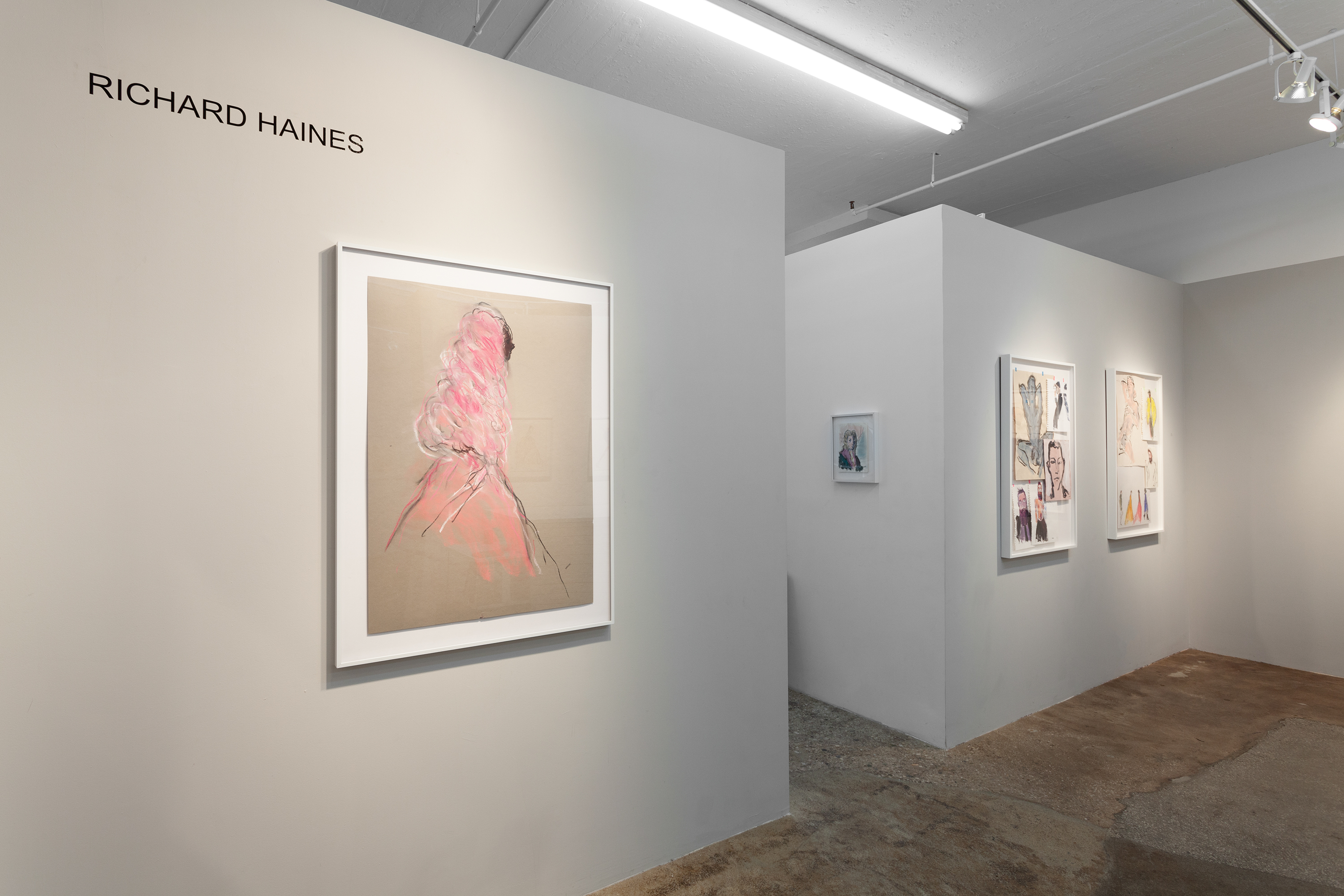 Richard Haines exhibition at Daniel Cooney Fine Art